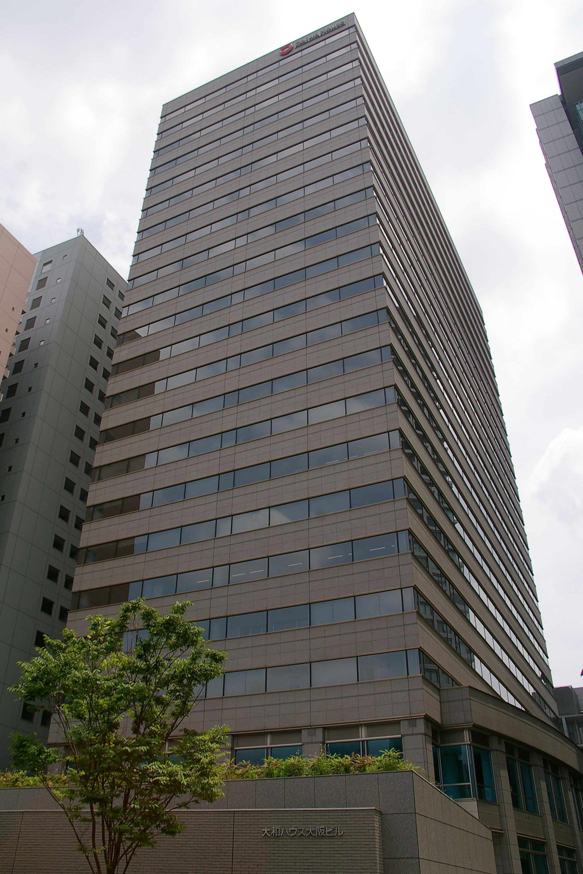 Photograph of Daiwa House Osaka Building, head office of Daiwa House Industry Company, in Kita-ku, Osaka, Osaka Prefecture, Japan.